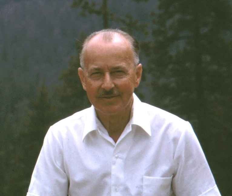 Portrai Ernst J. Martin (1900-1967), author (dendrology)